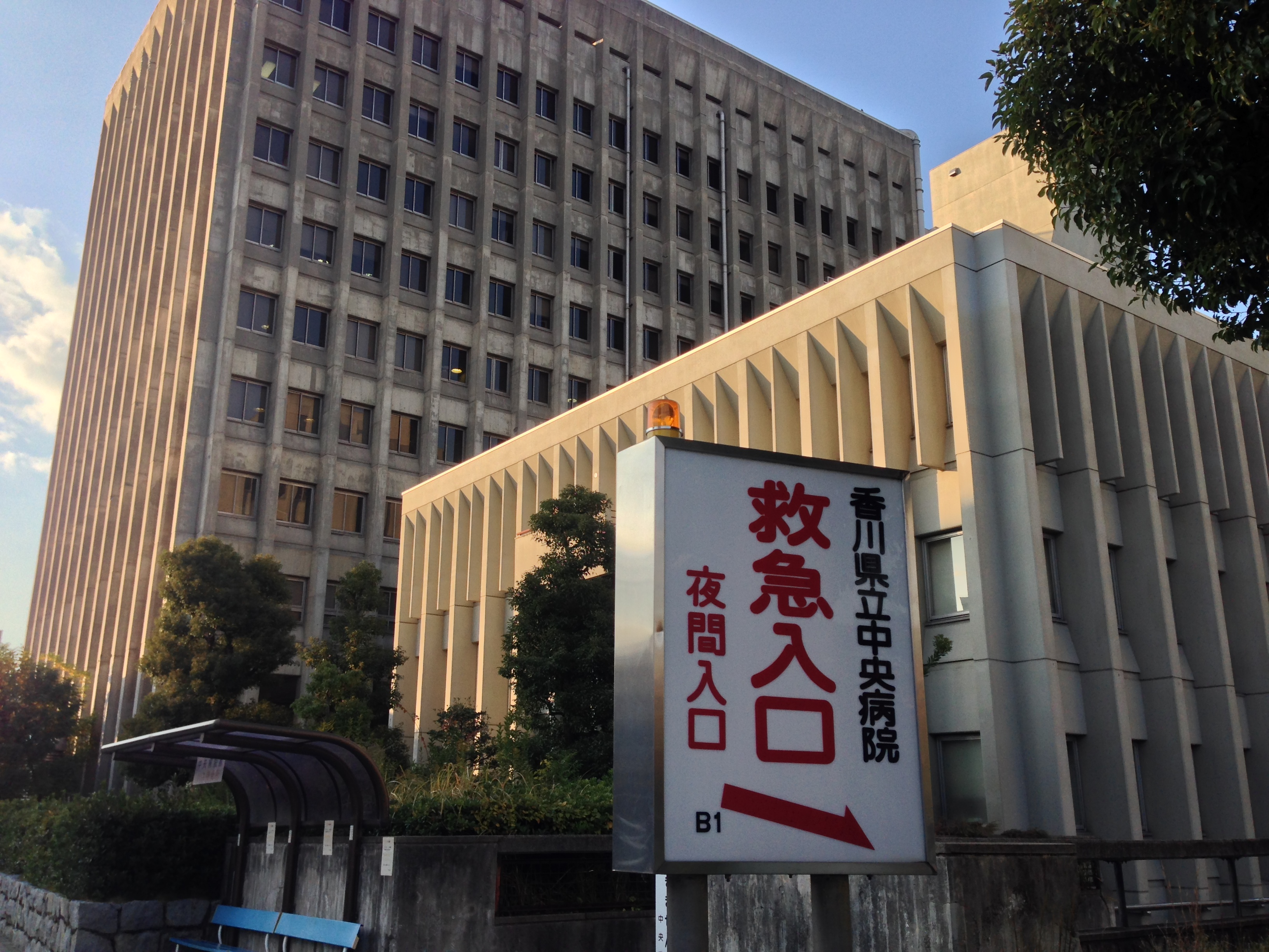 Former Kagawa Prefectural Central Hospital